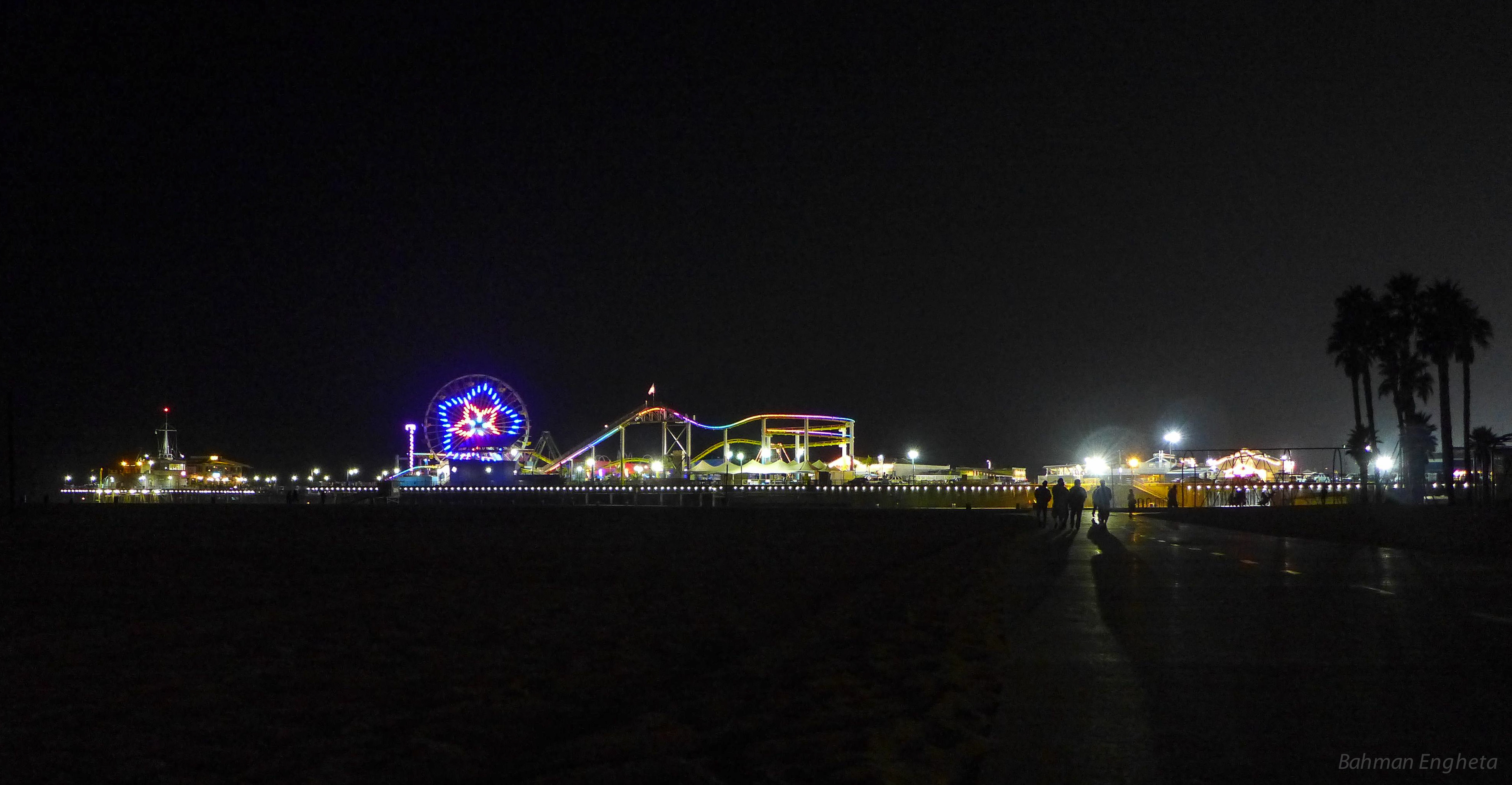 View of the Santa Monica Pier and Pacific Park from the beach, photographed on the evening of September 29, 2012.